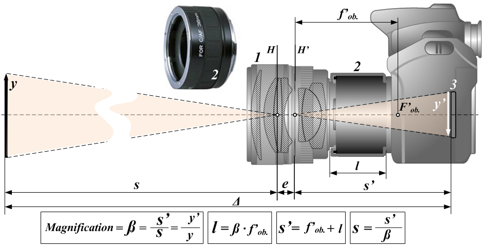 Close - up photography using extension tube. 1 - Camera lens. 2 - Extension tube. 3 - Film or sensor. y - Object height. y'- Image height. l - Width of extension tube. H - First principal plane. H'- Second principal plane. e - Distance between principal planes. s - Object distance. s'- Image distance. ß - Magnification. f'ob. - Camera lens focal lenght Δ = Object - image distance. Example: f'ob. = 50 mm ; y = 33 mm ; y'= 24 mm ; ß = ? ; l = ? ß = y' / y = 24 / 33 = 0.727 l = ß . f'ob. = 0.727 . 50 = 36.35mm